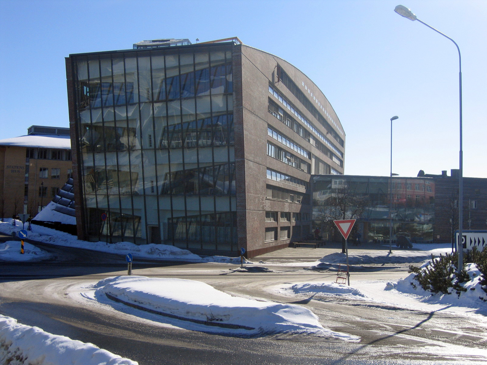 Hamar City Hall, Hamar, Hedmark. Picture taken 2006.13.03 Photo uploaded by Cato Edvardsen, 14 March 2006 (UTC)